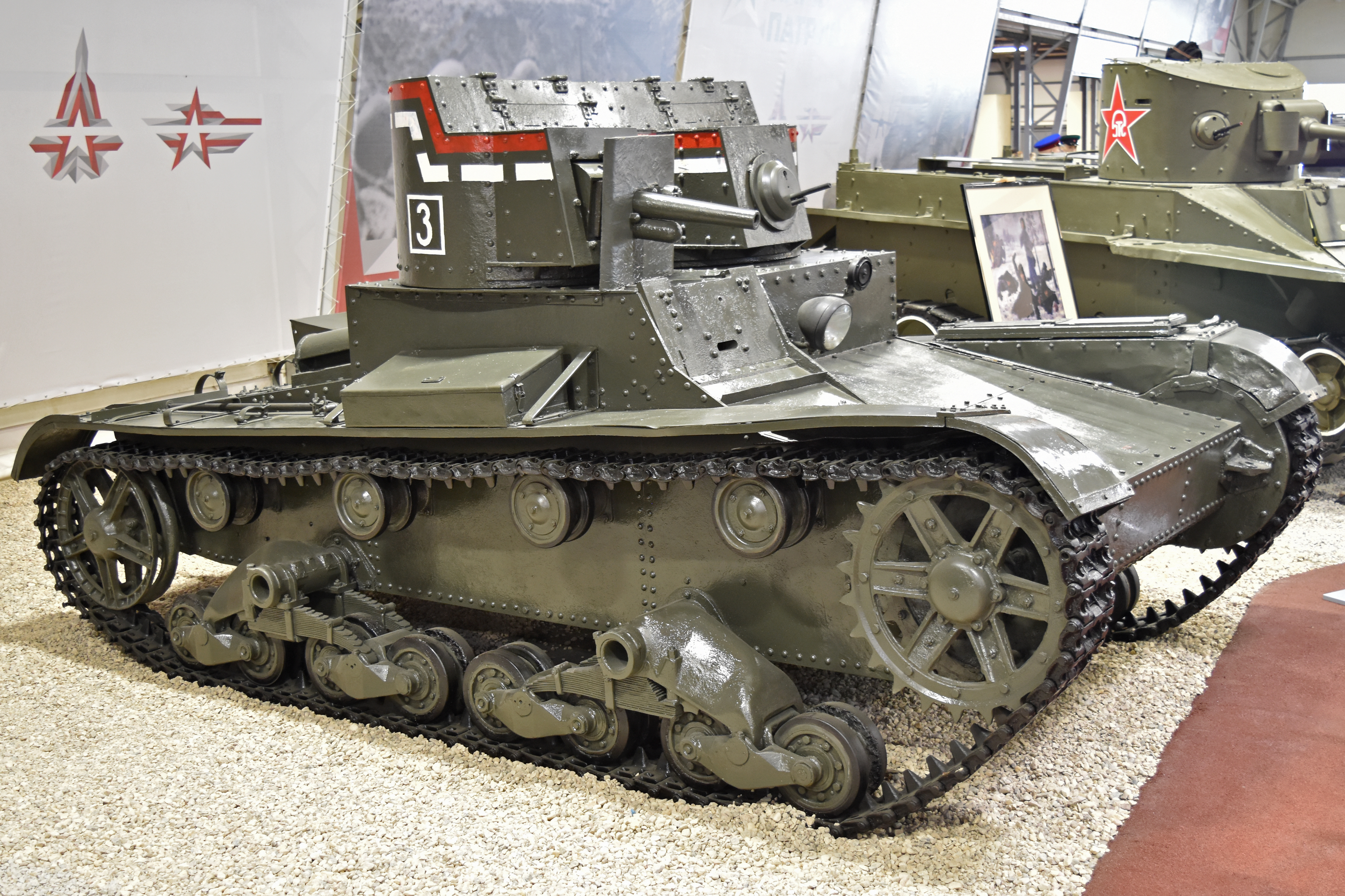 Soviet WW2 era Light Infantry Tank Manufacturer:- Factory No174, Leningrad / Stalingrad Tractor Factory Built:- 1931 to 1941 Total Production:- 10,300 Main Armament:- 45mm 20K Model 1932-34 tank gun The T-26 was developed from the British Vickers 6-Ton tank and was the most successful tank of the period with over 10,000 produced. They saw action during the Spanish Civil War, the 1939-40 Winter War, the Battles of Moscow and Stalingrad and were still in use fighting the Japanese Kwantung Army in Manchuira in August 1945 Some 45 still exist, this example is on display in Hall 8 of the Patriot Museum Complex. Park Patriot, Kubinka, Moscow Oblast, Russia. 25th August 2017